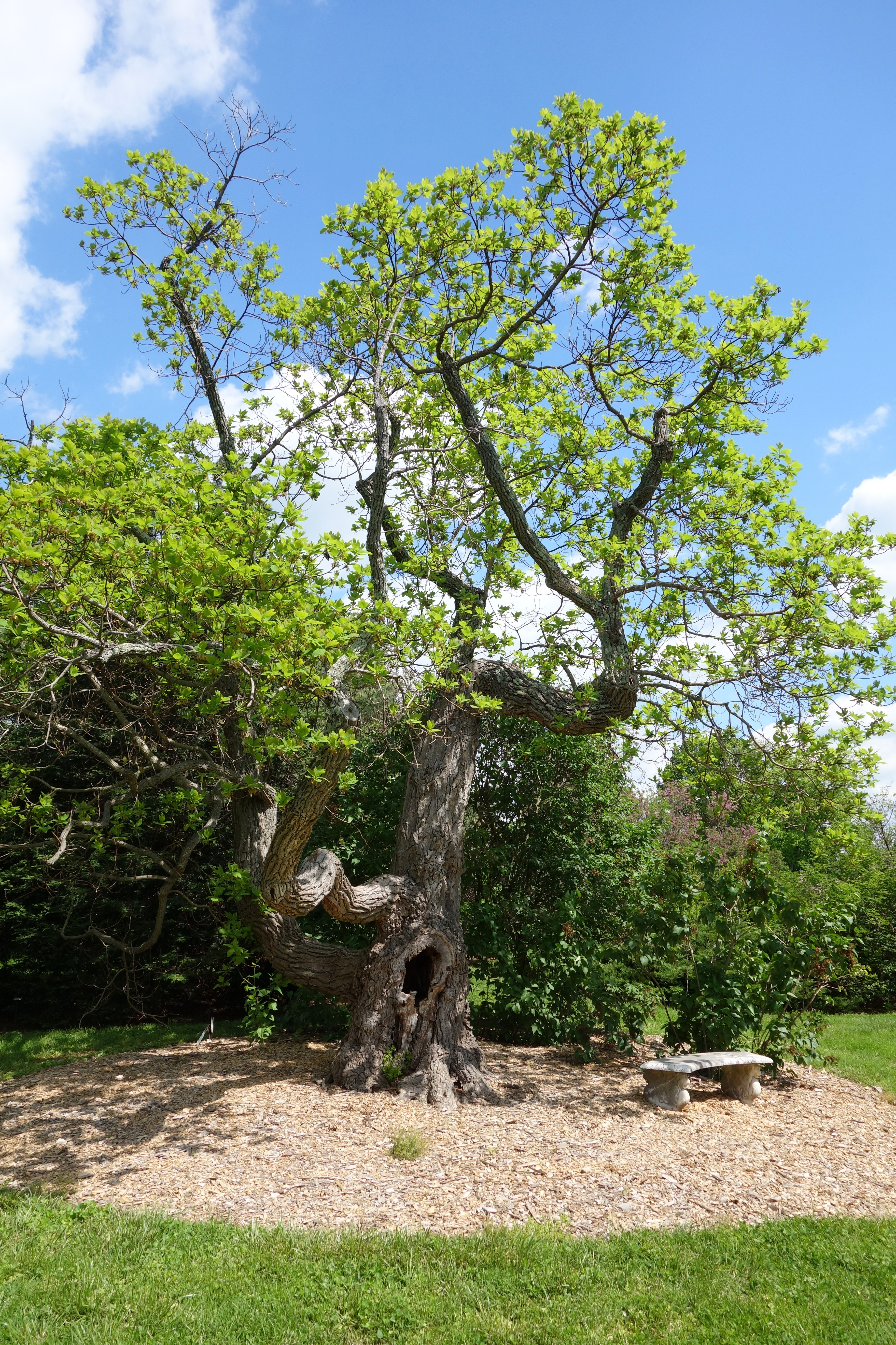 Botanical specimen in the Stanley M. Rowe Arboretum, Indian Hill, Ohio, USA.